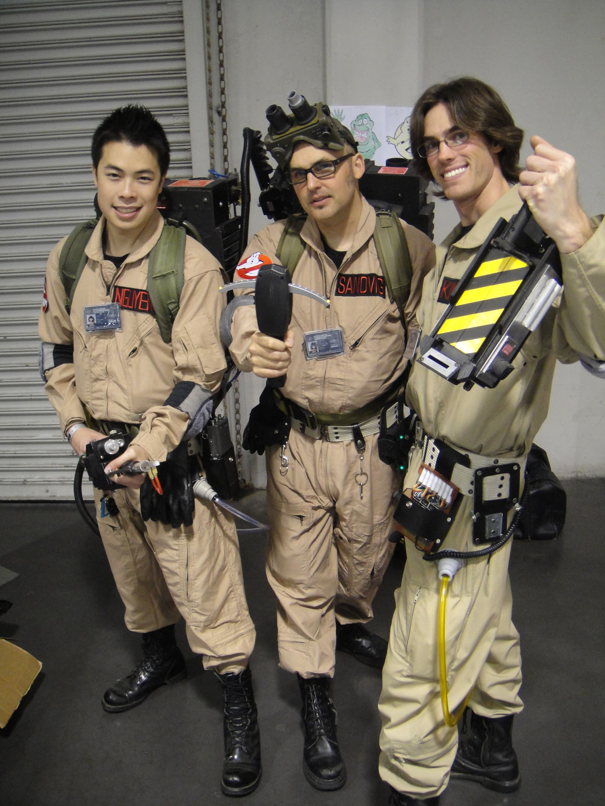 photo 2011 taken by Doug Kline If you're interested in higher resolution versions of my images, contact me via my profile page.